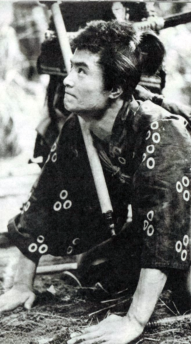 Ken Ogata